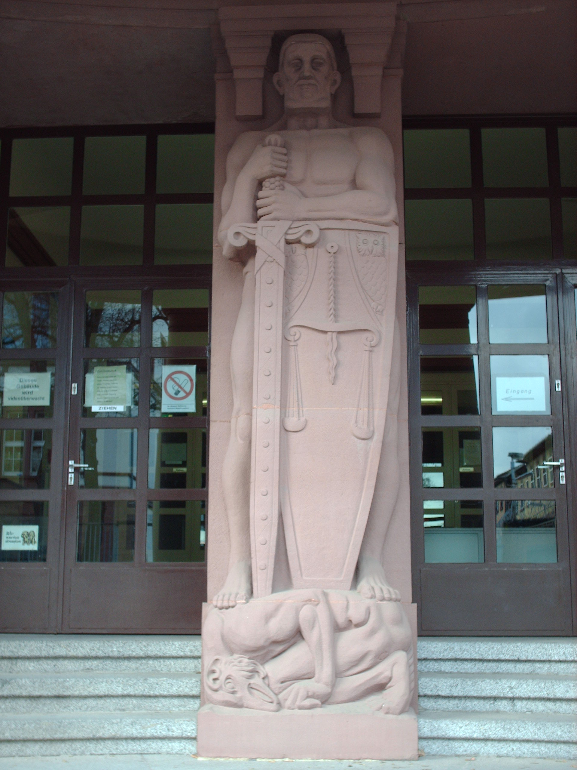 Statue at Amtsgericht Gießen, Gießen, Germany check usage